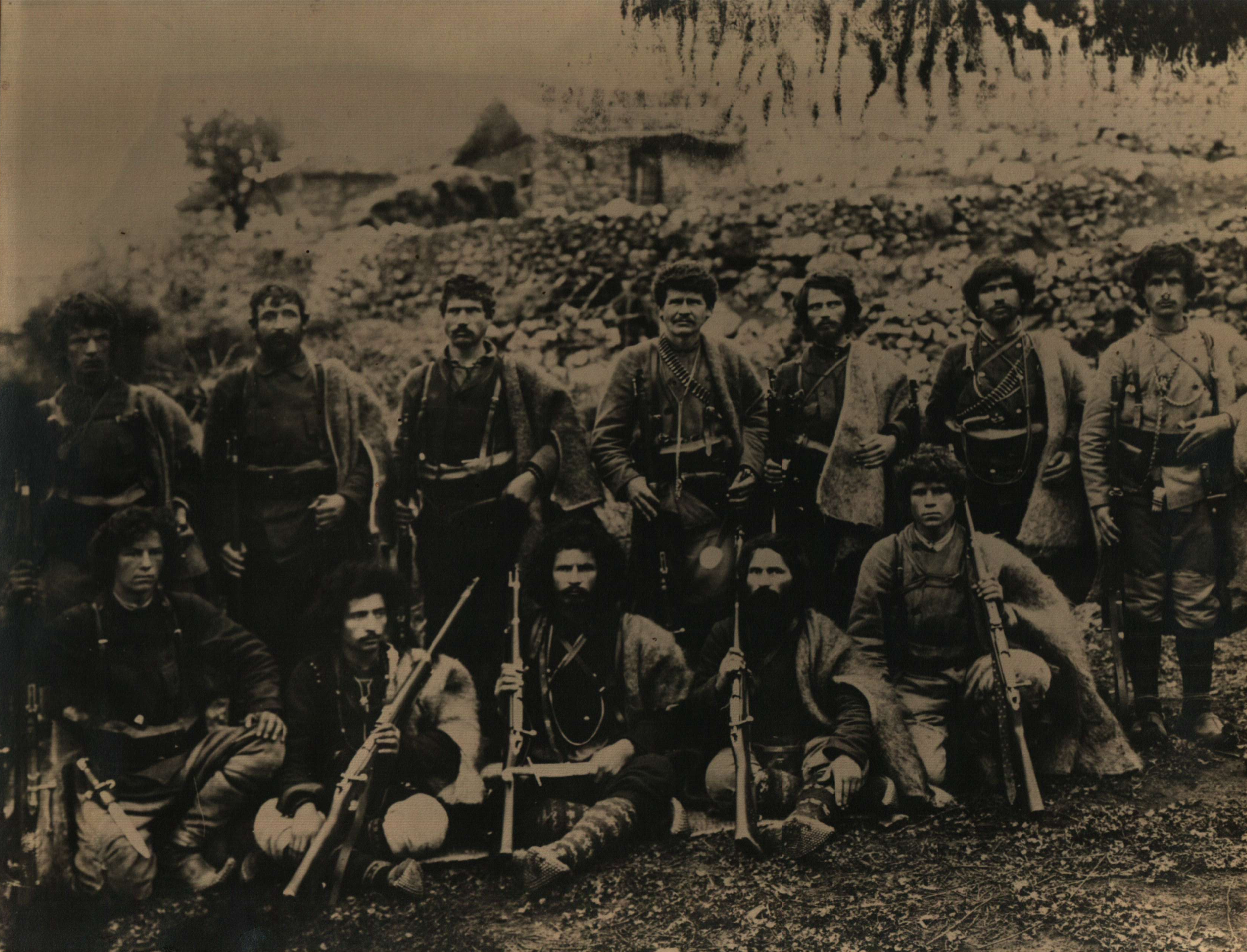 Petar Hristov Germancheto (1867-1908)